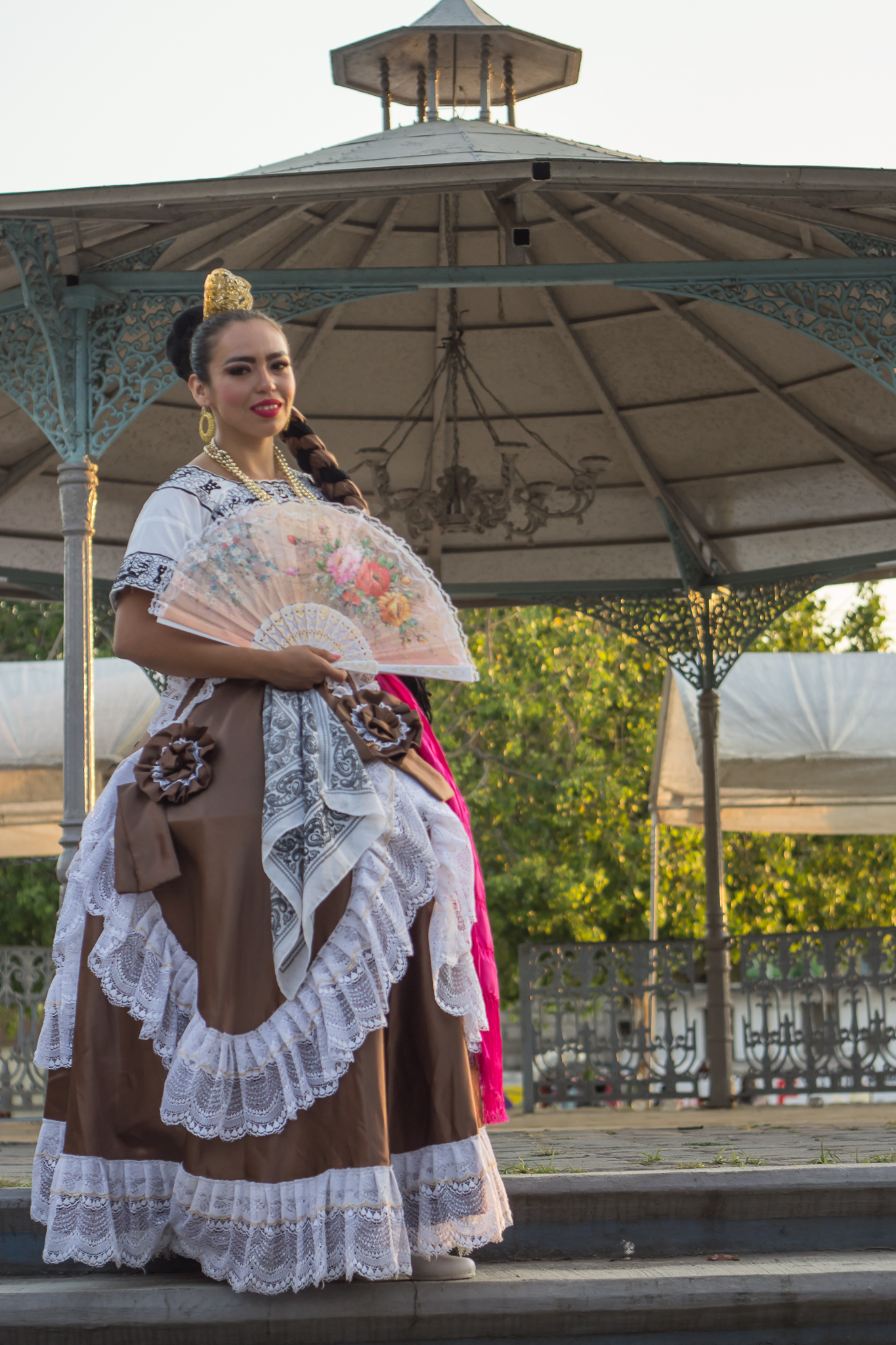 Here we can appreciate the folk dress of the state of Jalisco, Mexico This photo has been taken in the country: Mexico